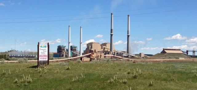 Sign for Colstrip with Plants in background